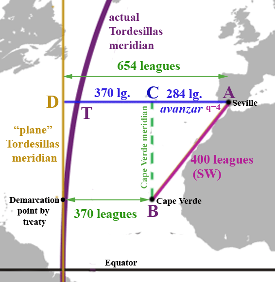 Application of the Rule of Marteloio to find the Tordesillas meridian. A ship setting out from Seville, seeking the Tordesillas meridian due west in the open sea, can use the Rule de Marteloio in reference to the demarcation point (370 leagues west of Cape Verde) to determine when it will reach the Tordesillas meridian (on a "plane" map).